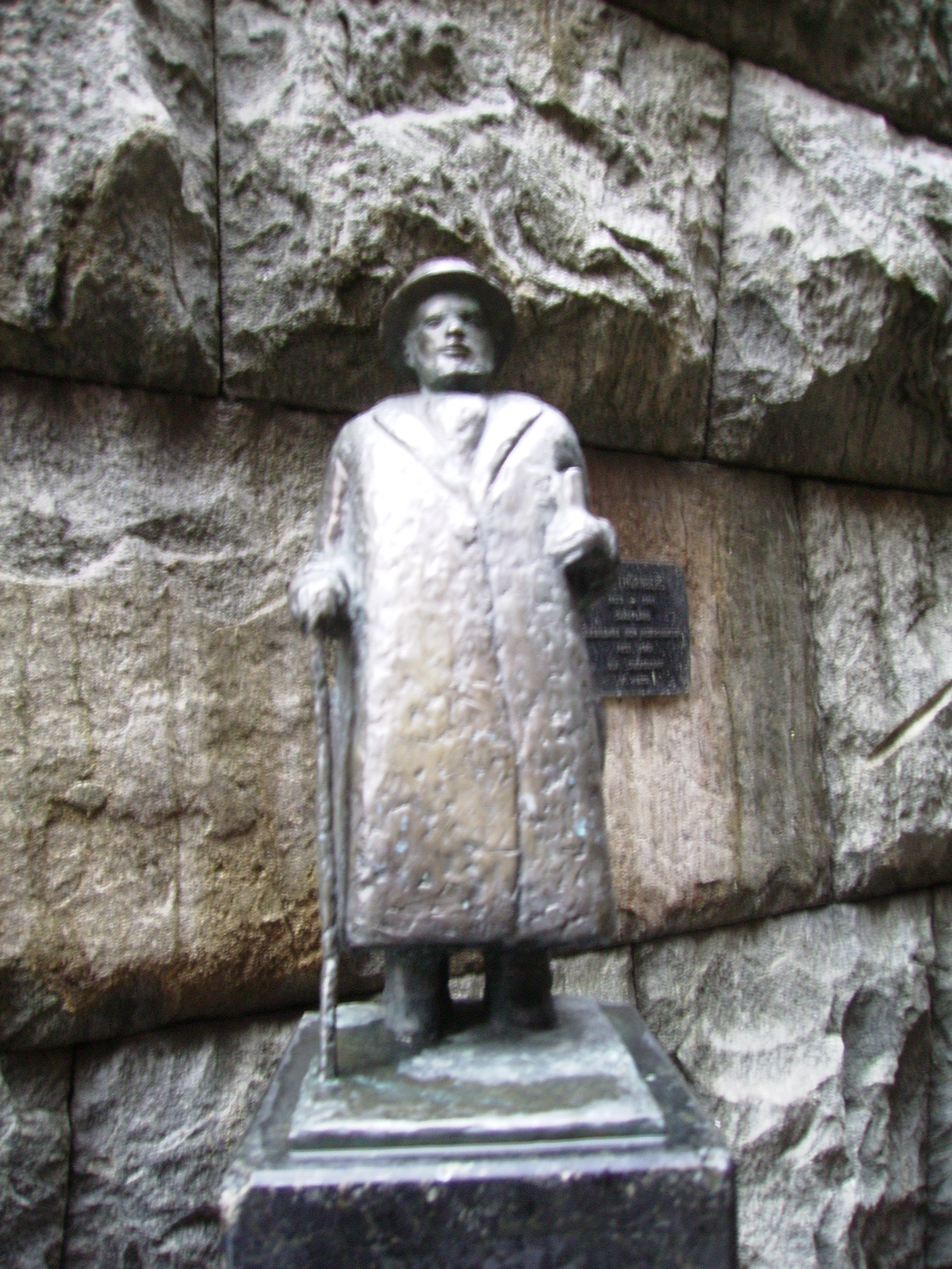 Picture of statue of E.H. Thörnberg in Stockholm